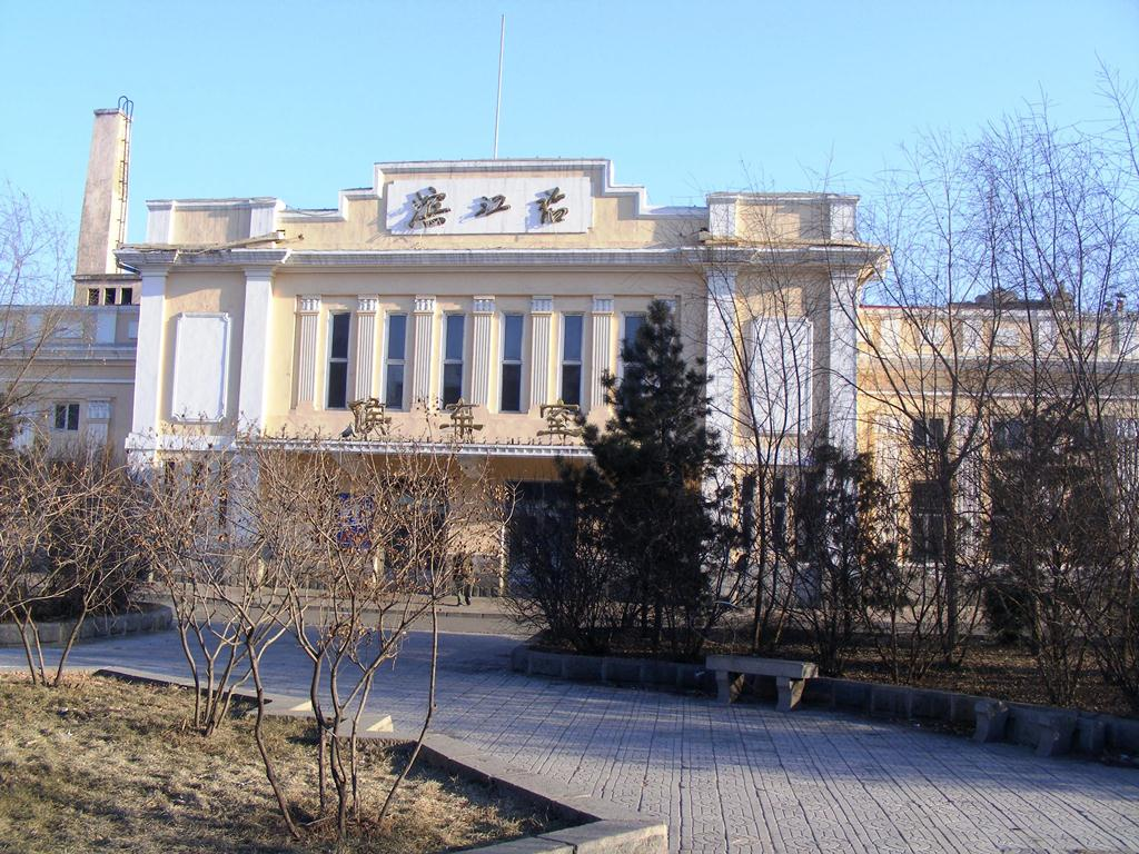 Binjiang railway station, Harbin, China